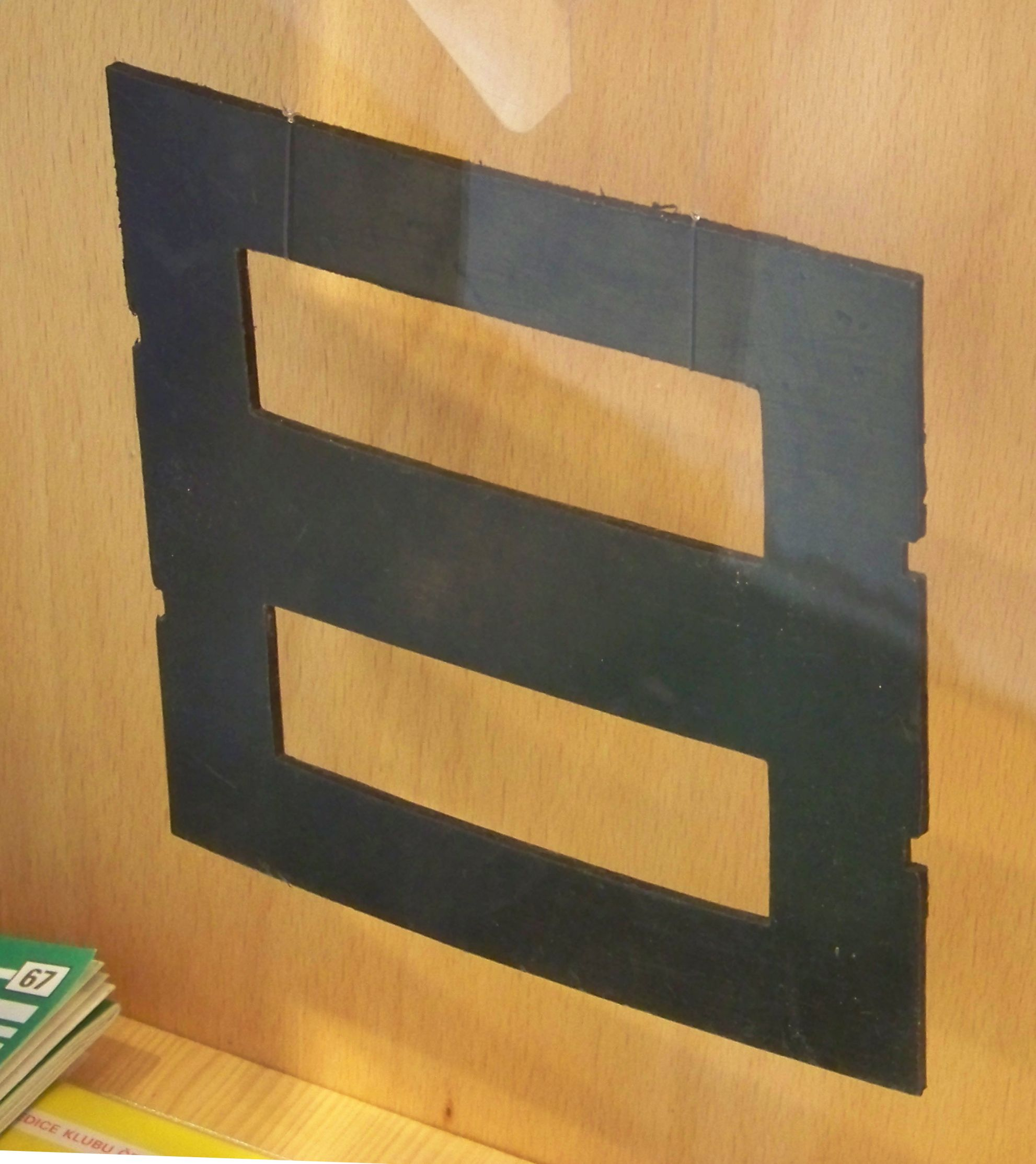 A stencil for walking route stripe signs of KČT. An exhibit of the Tourism Museum in Bechyně, Tábor District, South Bohemian Region, the Czech Republic, former synagogue in Široká street. Object location 49° 17′ 47.80″ N, 14° 28′ 9.50″ E This and other images at their locations on: Google Maps - Google Earth - OpenStreetMap - Proximityrama(Info)